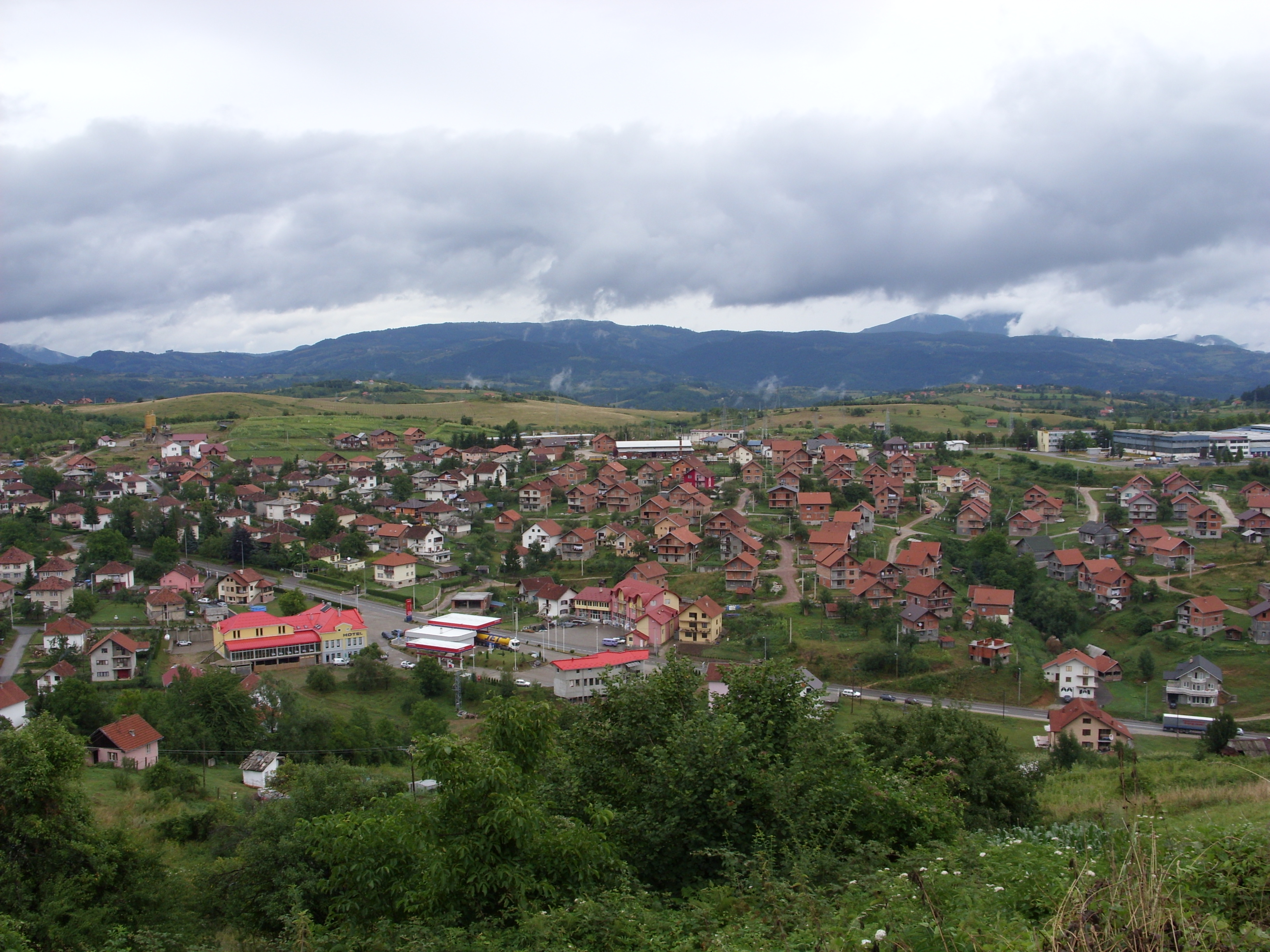 View on Vlasenica (Bosnia and Herzegovina).